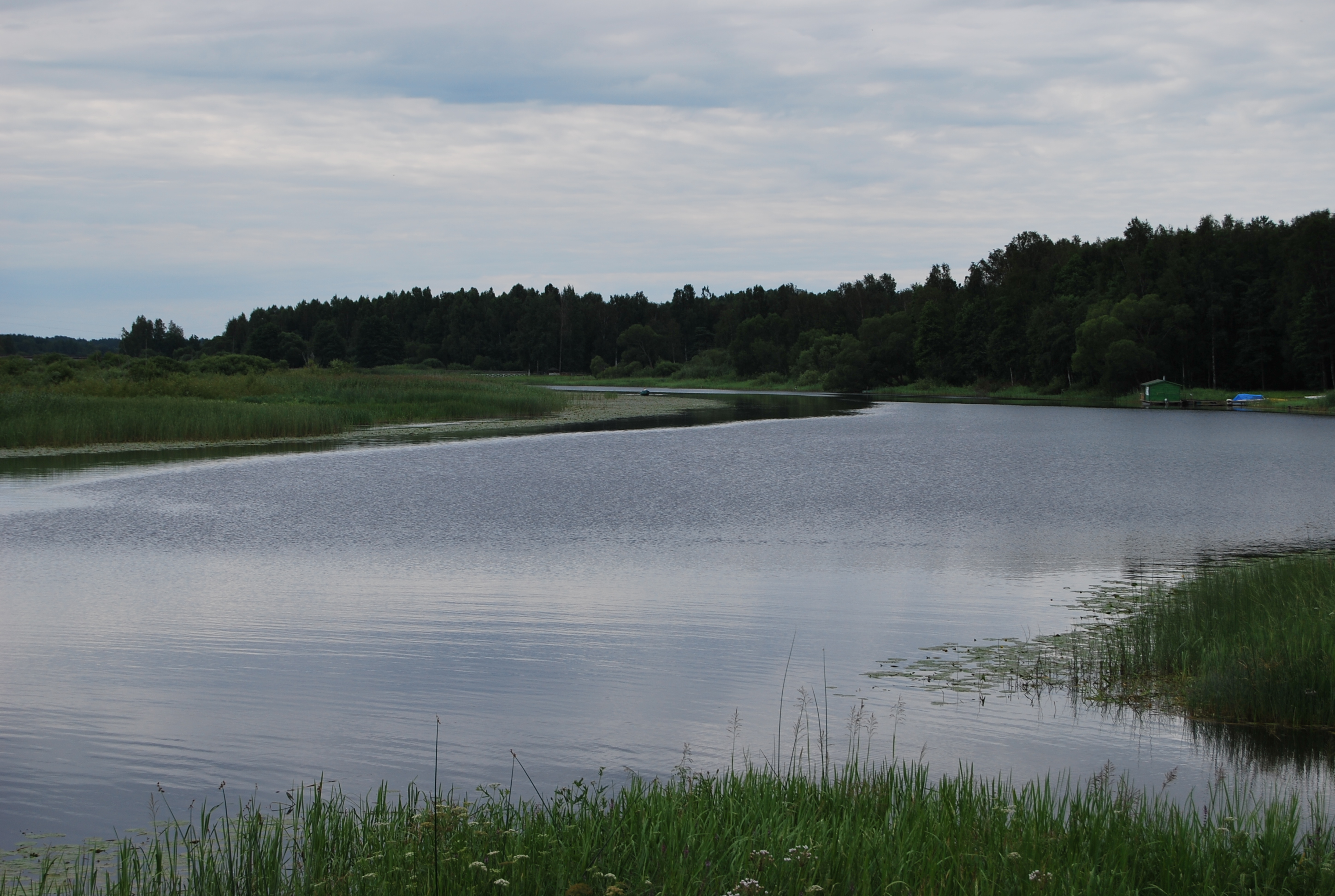 River Väike Emajõgi, located in Valga District, Estonia.